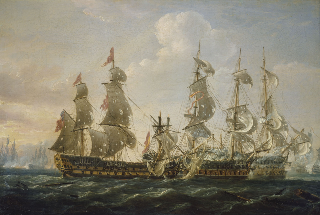 The 'Captain' capturing the 'San Nicolas' and the 'San José' at the Battle of Cape St Vincent, 14 February 1797